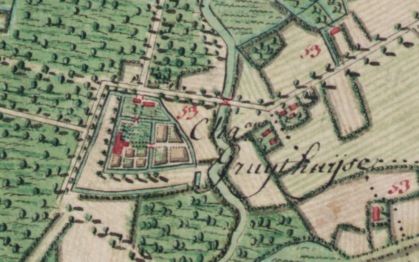 Gruuthusekasteel,_Belgium_;_ detail from Ferraris_Map